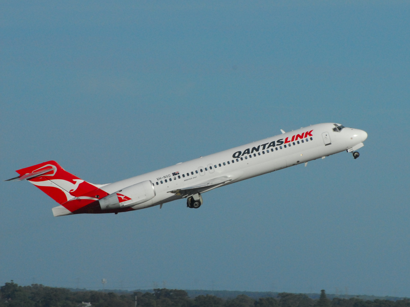 A QantasLink 717-200 lifts off on runway 6